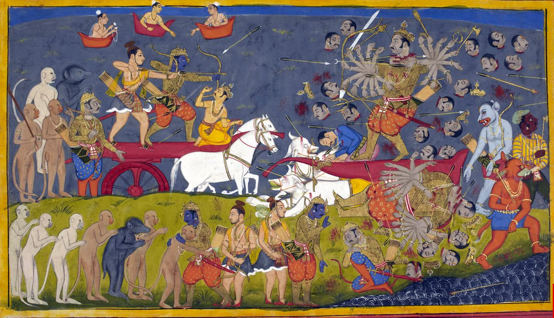 "Having seen Rama and Laksmana advancing to meet Ravana on foot, the god Indra has sent down his chariot and charioteer Matali. After a tremendous fight, in which Rama shoots off Ravana's heads with his arrows only to see them grow again, Matali reminds Rama to use his Brahma-weapon. This weapon pierces Ravana's breast and he falls lifeless from his chariot. The surviving demons depart and Rama receives the homage of Vibhisana, whose grief on the death of his brother he consoles, and that of all the monkey leaders and the bear Jambavan."